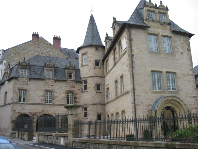 Municipal archives of Brive-la-Gaillarde (South-Western france)